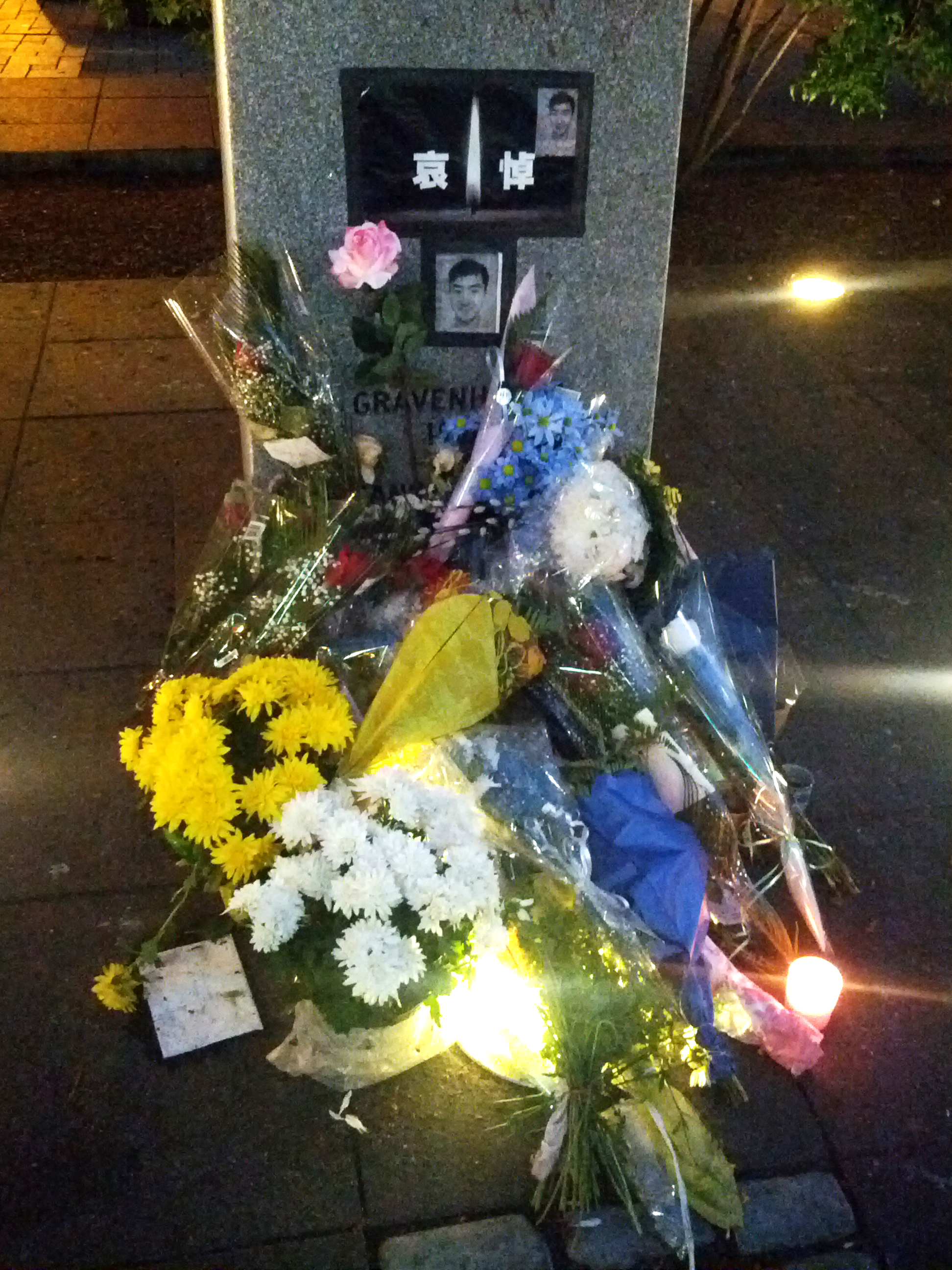 Makeshift memorial for Lin Jun in the Norman Bethune Square in Montreal, Quebec, Canada, on 8 June 2012.